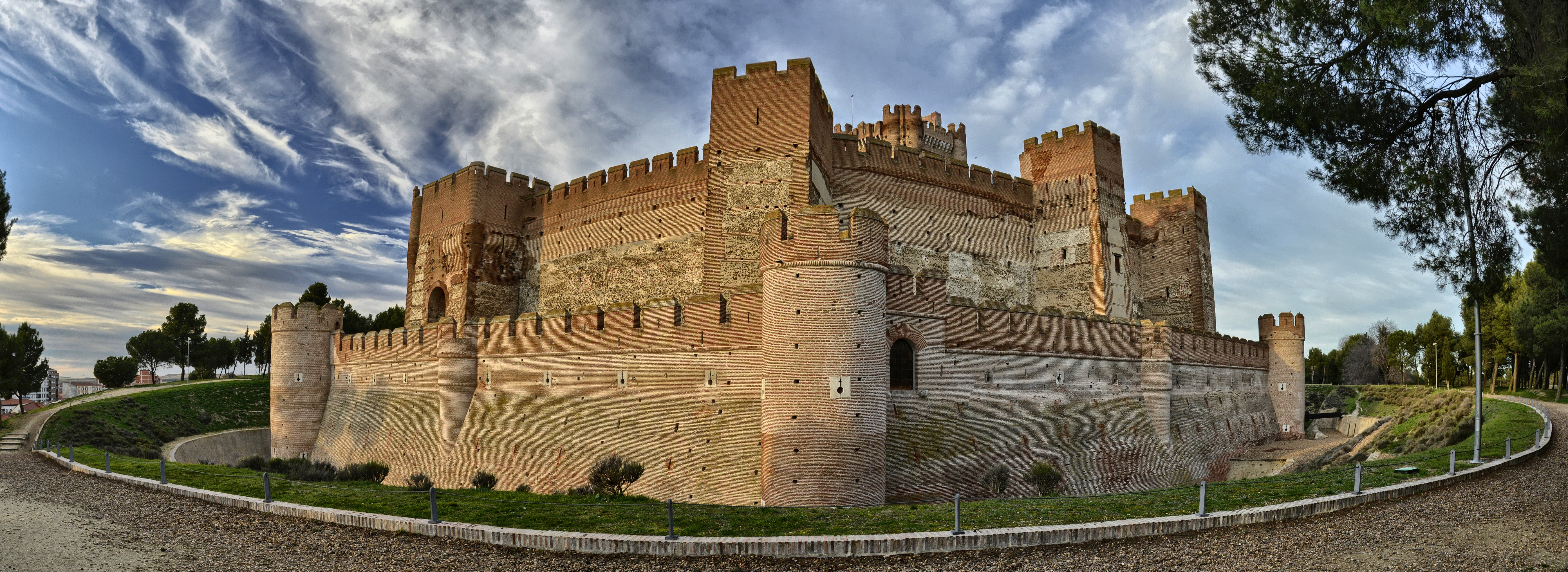 La Mota Castle, in Medina del Campo (Spain)